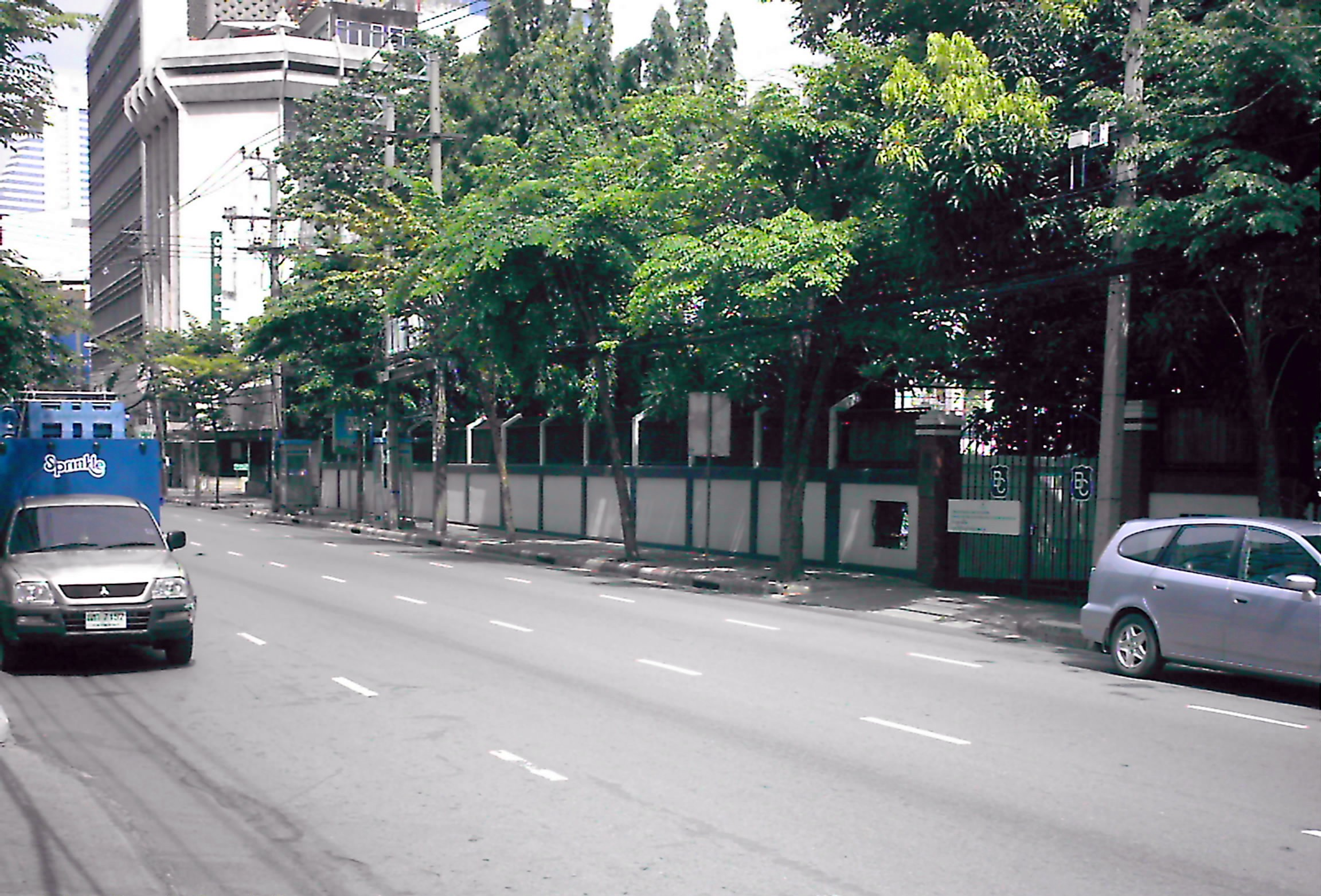 British Club, Suriwong Road, Bangkok, Thailand 中文（香港）: 泰國，曼谷，挽叻縣，素里翁路，英國俱樂部。